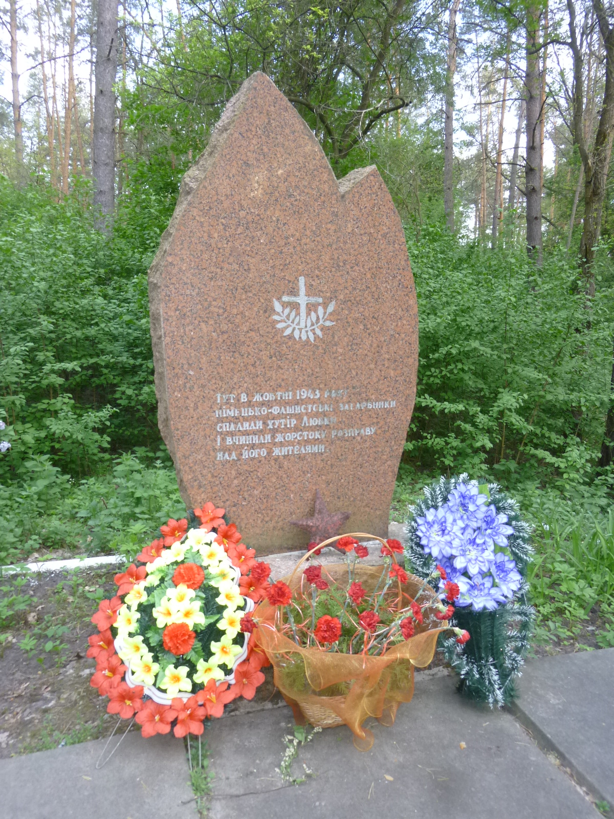 Kyiv Lubka